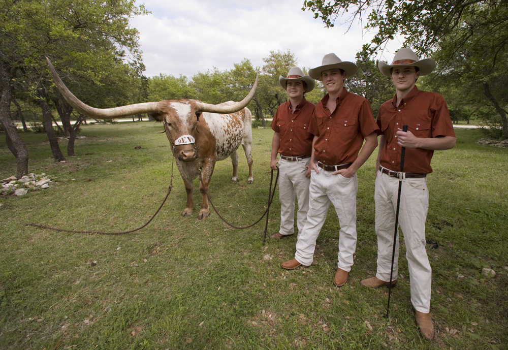 March 2008 Sunrise Ranch